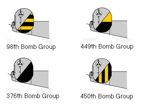 Tailcodes of the 47th Bomb Group, 15th Air Force, World War II